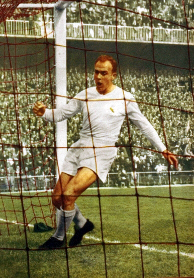 Alfredo Di Stefano while playing at Real Madrid CF.